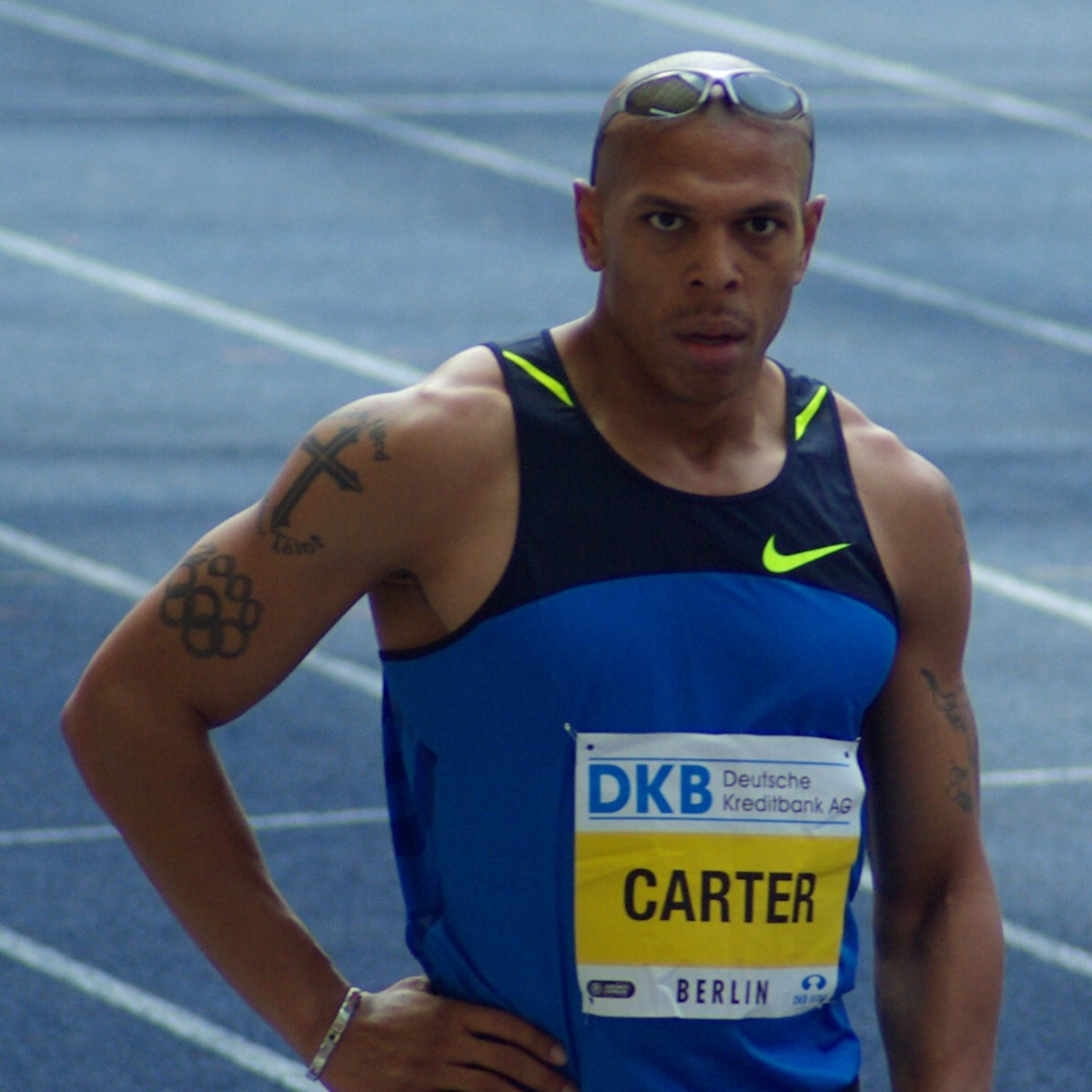 James Carter on ISTAF meeting, Berlin, 2008